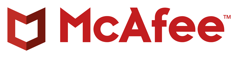 The logo of McAfee, LLC